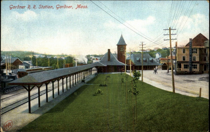 1910 postcard of Union Station in Gardner, Massachusetts